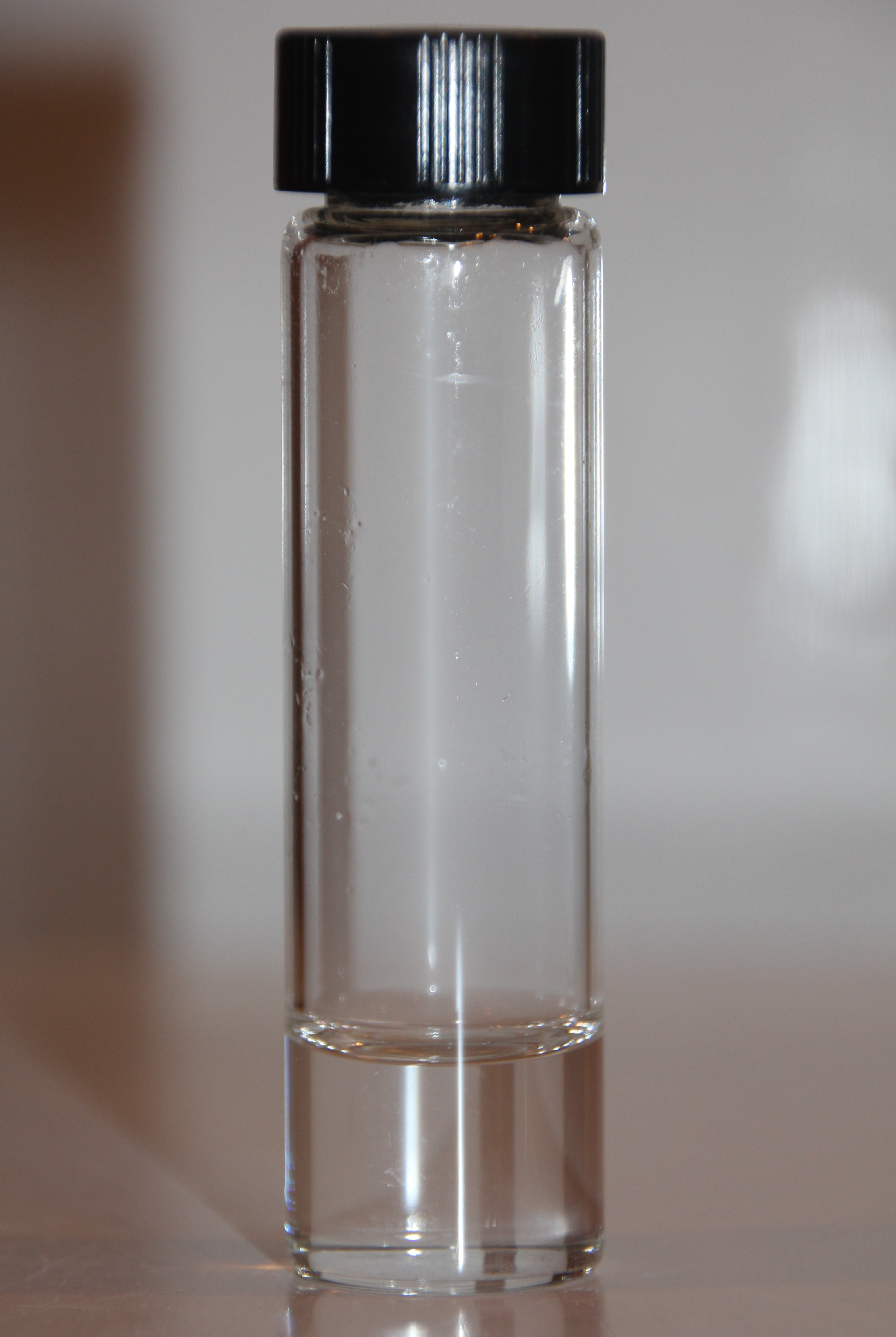 Sample of hydrazine hydrate.jpg